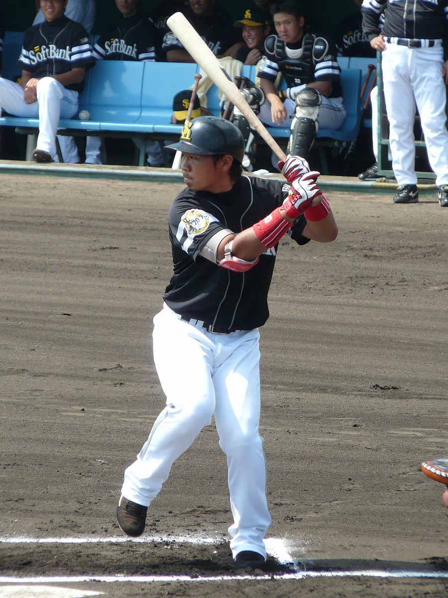 Akira Nakamura, outfielder of the Fukuoka SoftBank Hawks, at Hanshin Naruohama Baseball Ground.